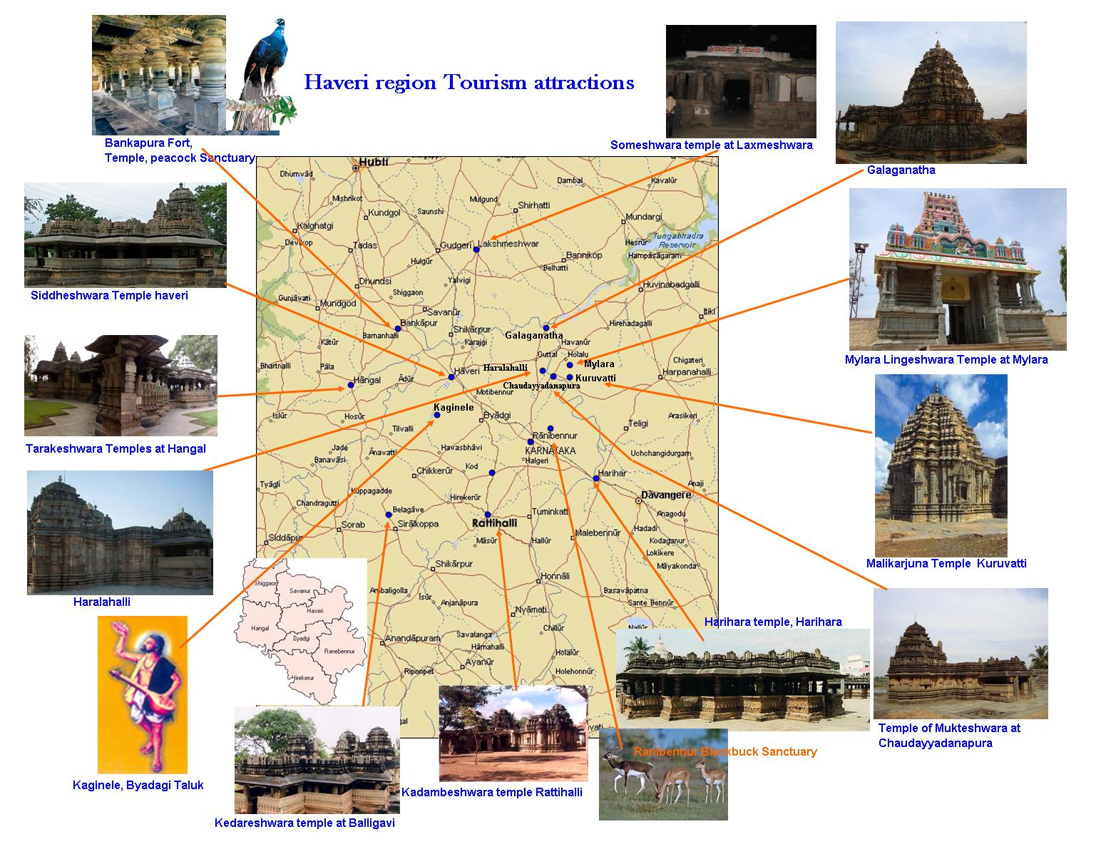 Haveri region Tourism attractions map Source and Author : Manjunath Doddamani, Gajendragad / Hubli, Karnataka(India)